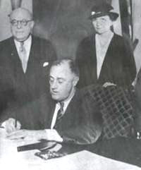 Francis Perkins looks on as Franklin Roosevelt signs the Wagner-Peyser Act on June 6, 1933. At left is Rep. Theodore A. Peyser of New York. - The caption on the source later changed to: Francis Perkins looks on as Franklin Roosevelt signs the Wagner-Peyser Bill creating the US Employment Service. June 6, 1933